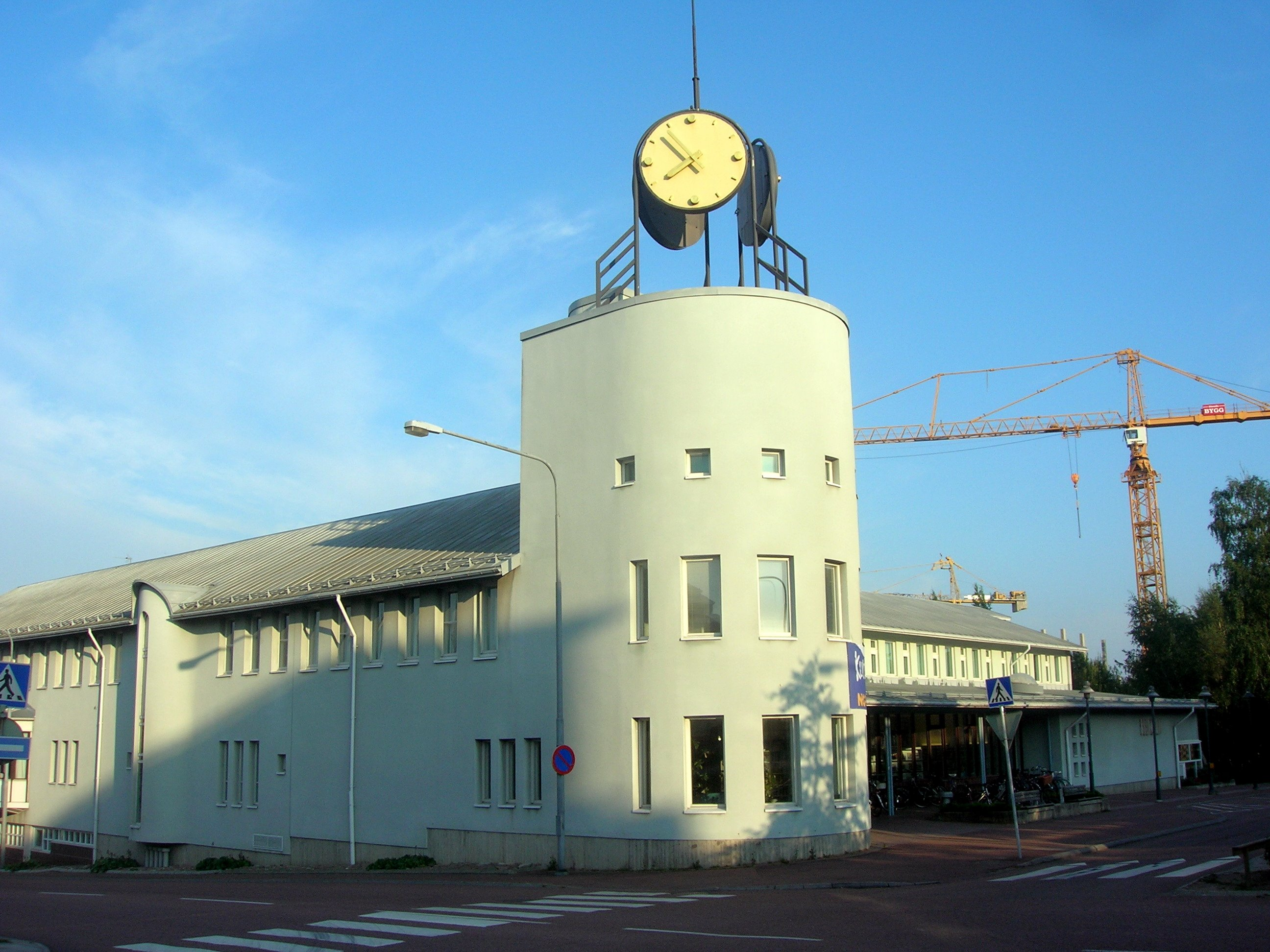 Public library of Mariehamn, Åland, Finland.